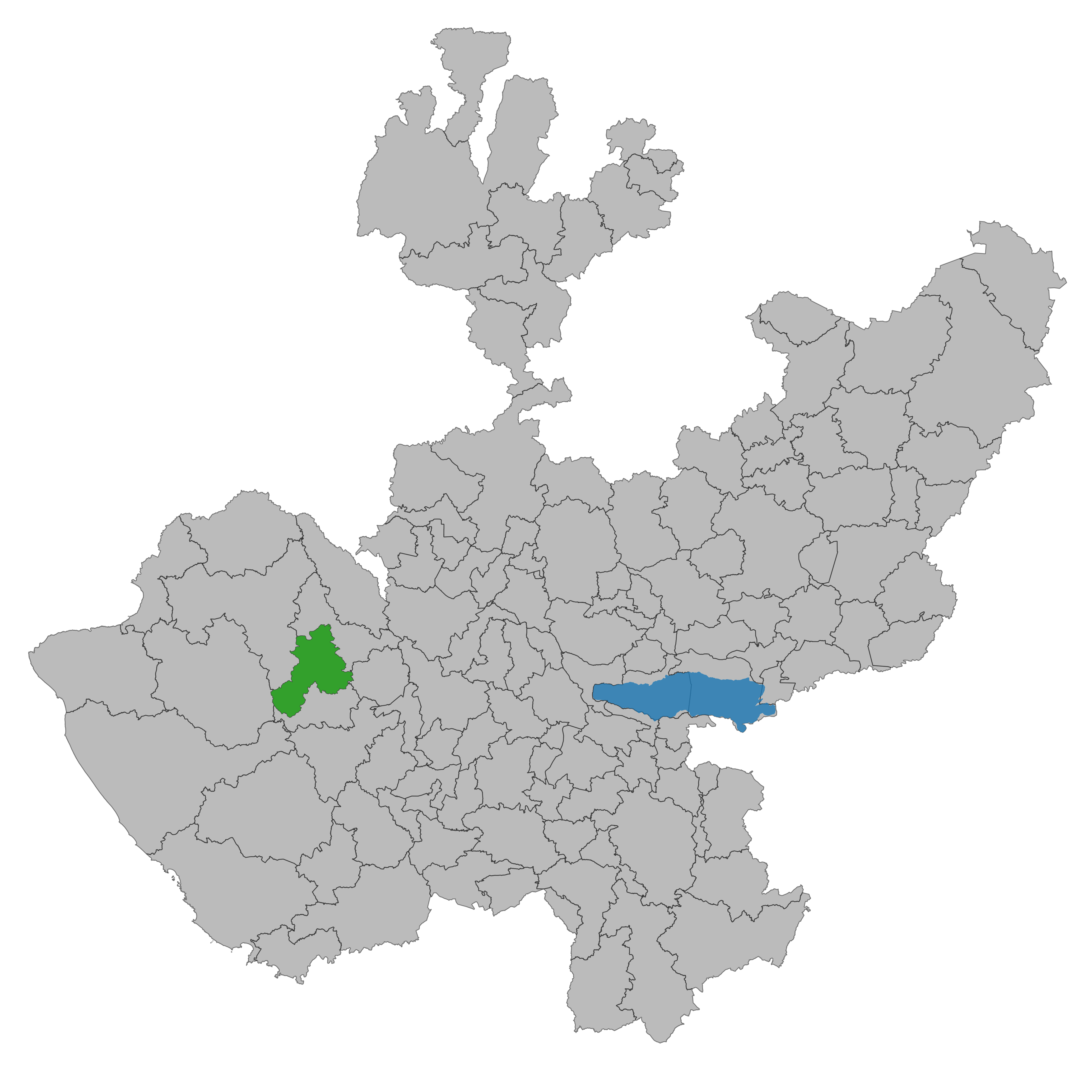 Municipality of Jalisco. Prepared with the software QGIS version 2.8.2 Wien & with information of SCINCE 2010 version 05/2013